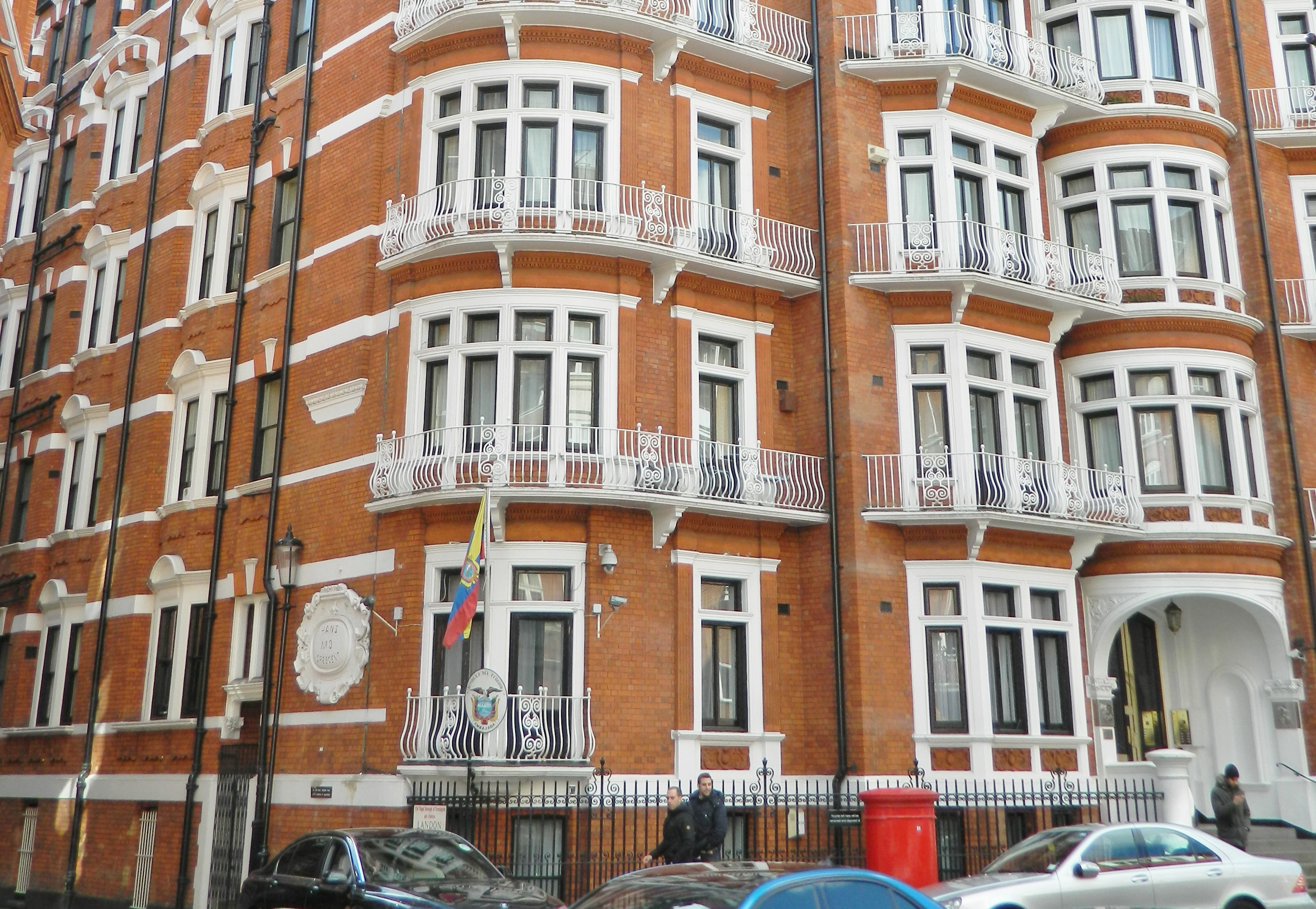 Exterior of the Embassy of Ecuador, London, showing the famous balcony from which Julian Assange, whilst under the protection of the embassy, made many of his statements.